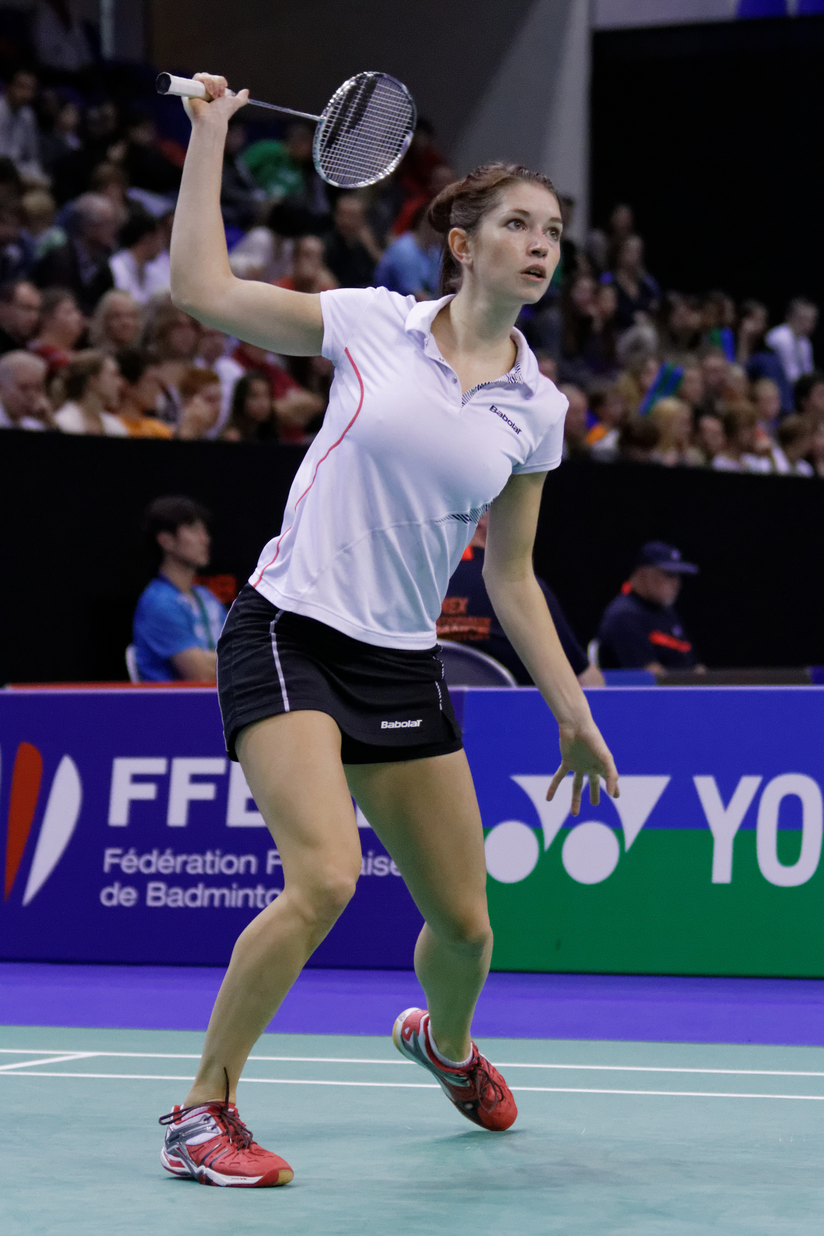 2013 French open. Mixed's doubles eightfinal. Chan Peng Soon and Goh Liu Ying vs Chris Langridge and Heather Olver.